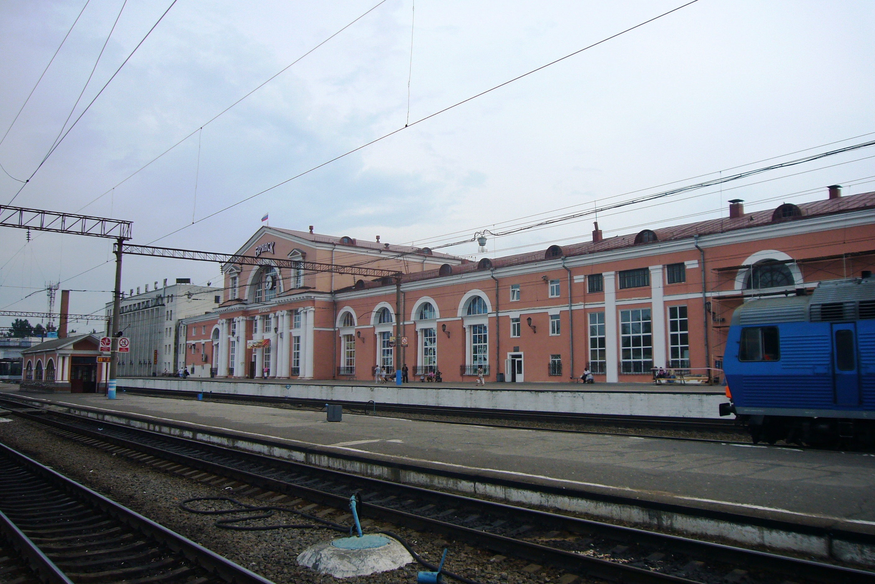 Train station Bryansk-1, Bryansk Oblast, Russia.